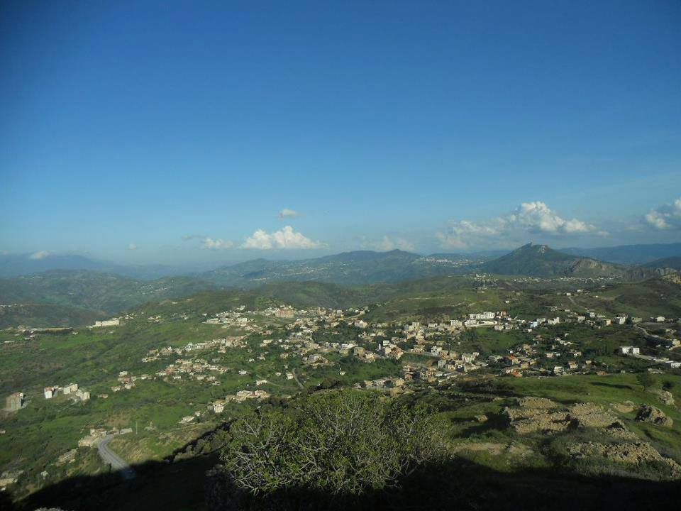 Ait maouche Beni maouche vue génerale